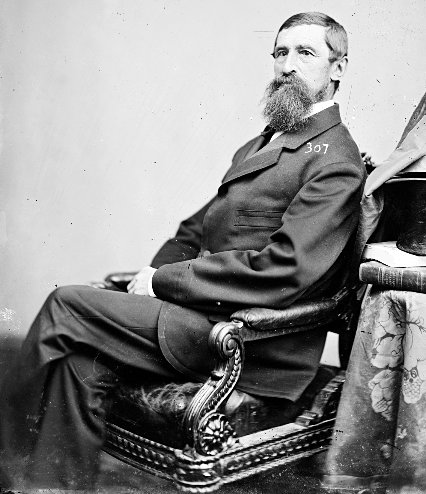 Edward Degener, US Representative from Texas